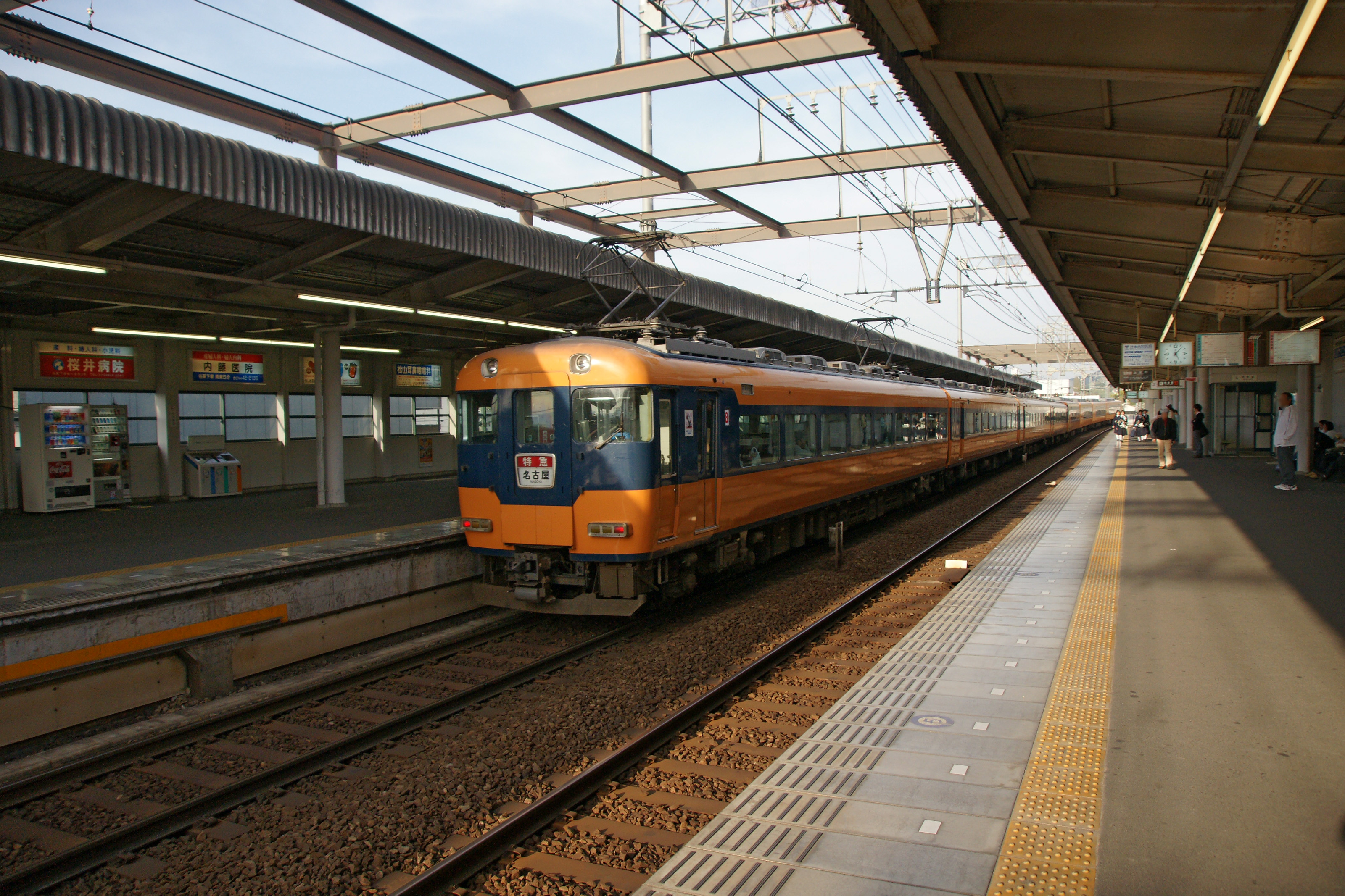 Sakurai Station, Sakurai, Nara prefecture, Japan